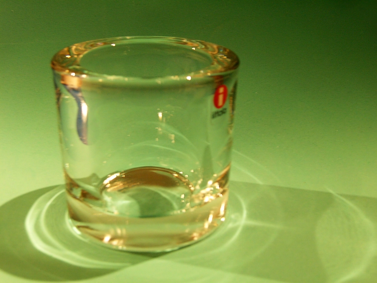 Kivi candleholder 6o millimeters (clear). -Designed in 1988 by Heikki Orvola (b. 1943) for Iittala Ltd.